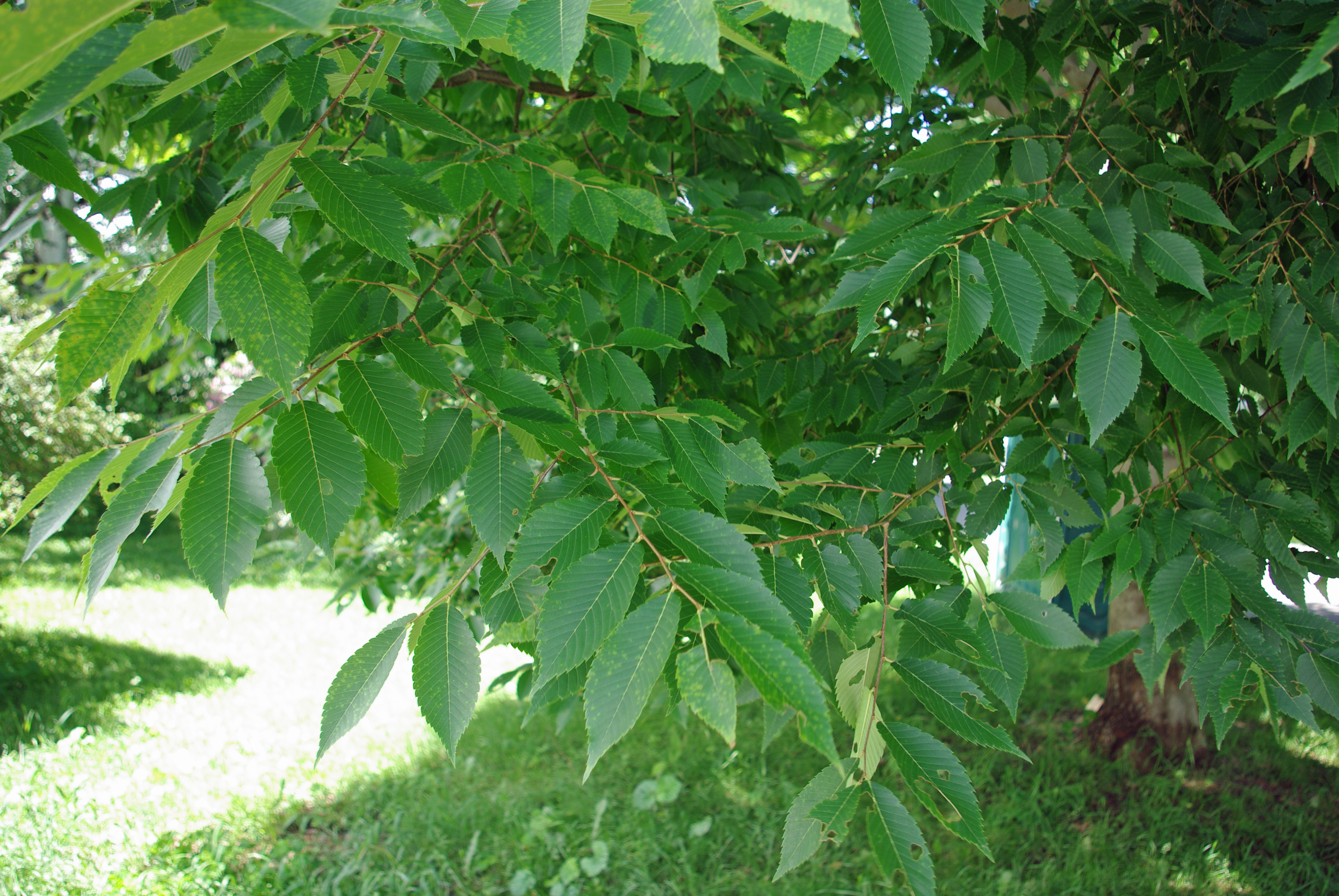 Foliage of Zelkova schneideriana, Arnold Arboretum, Boston, Massachusetts